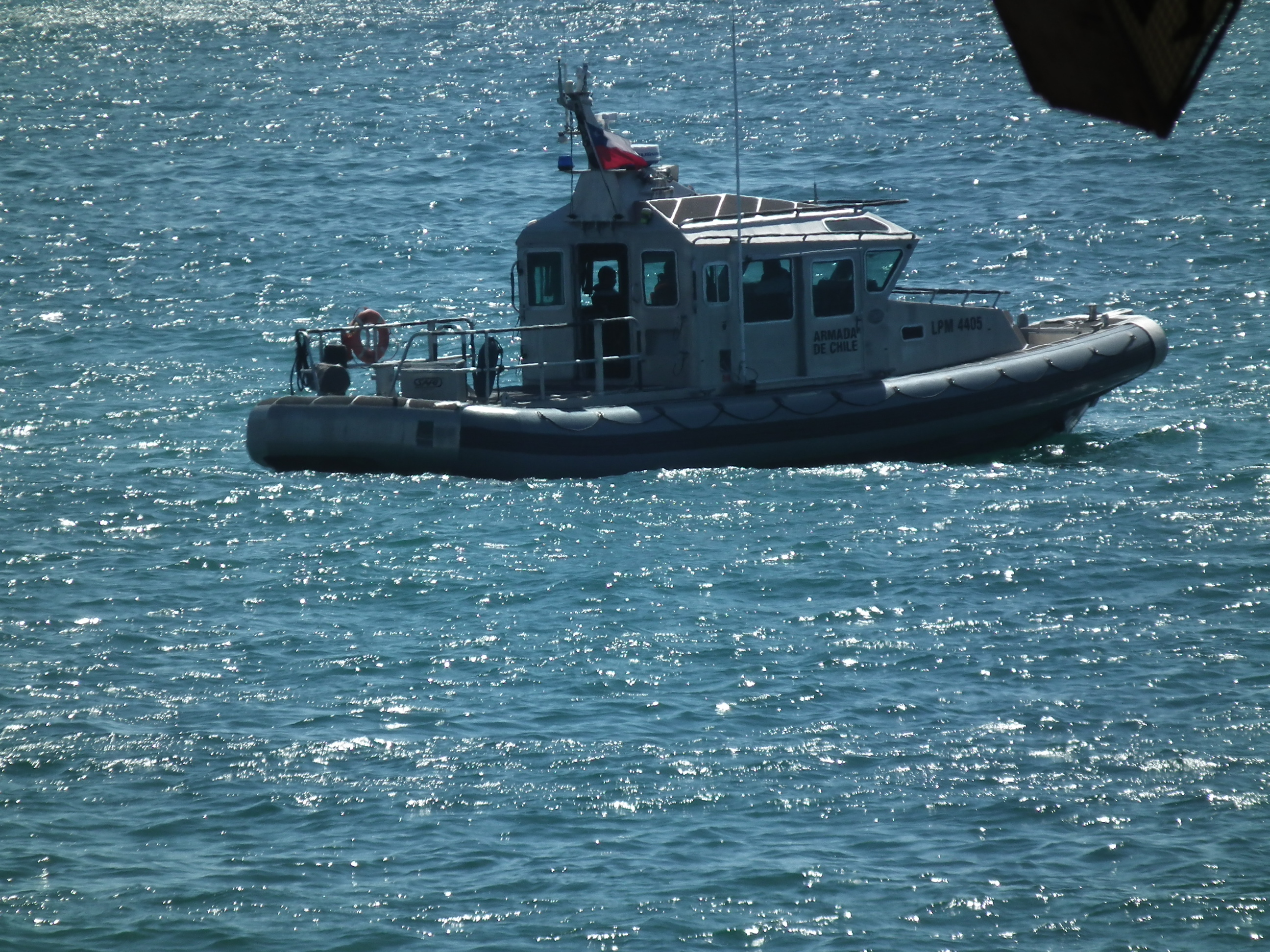 A Defender Class boat at El Quisco Bay, Chile